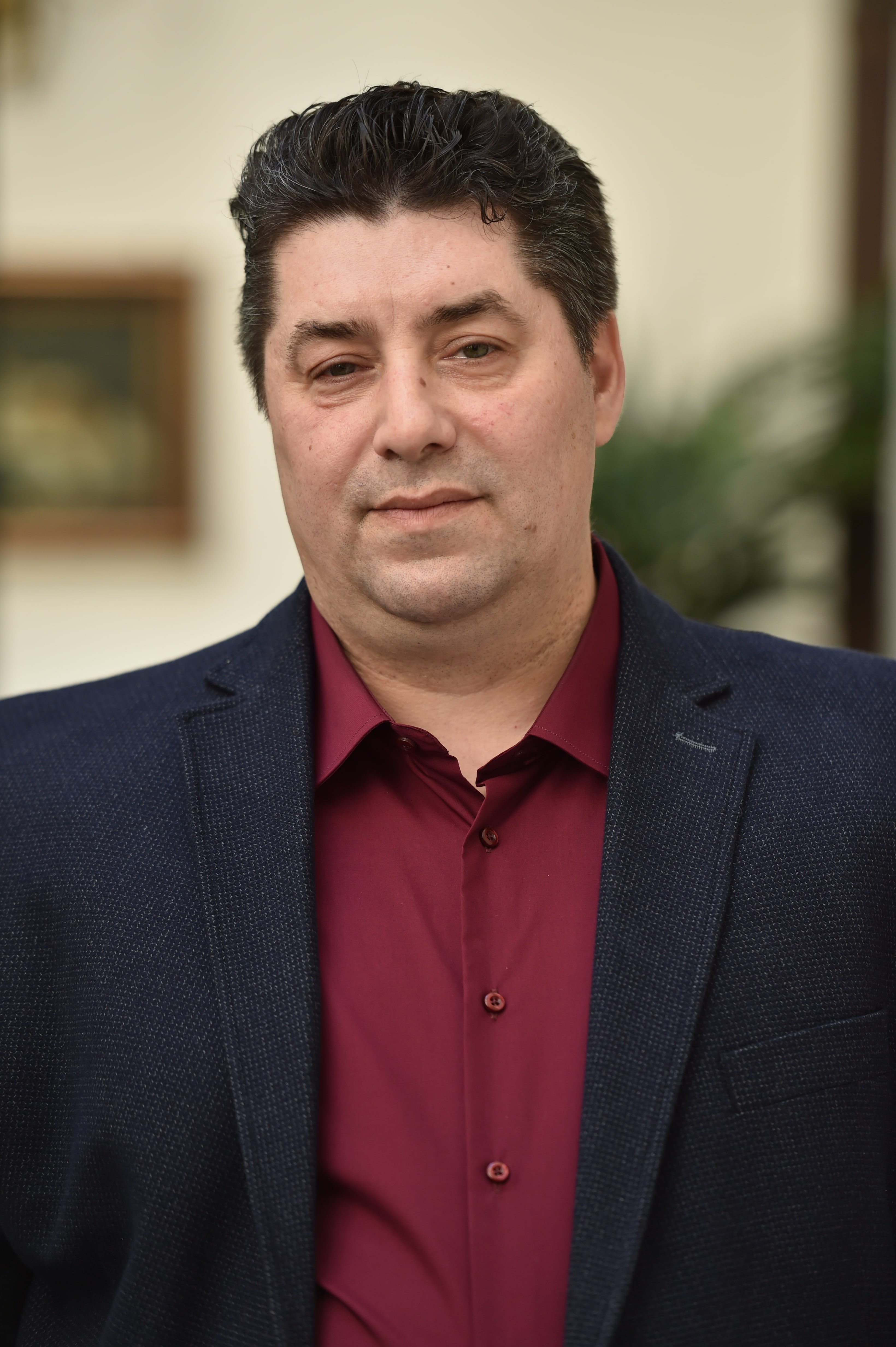 Ukrainian scientist, academician, head of several research institutes